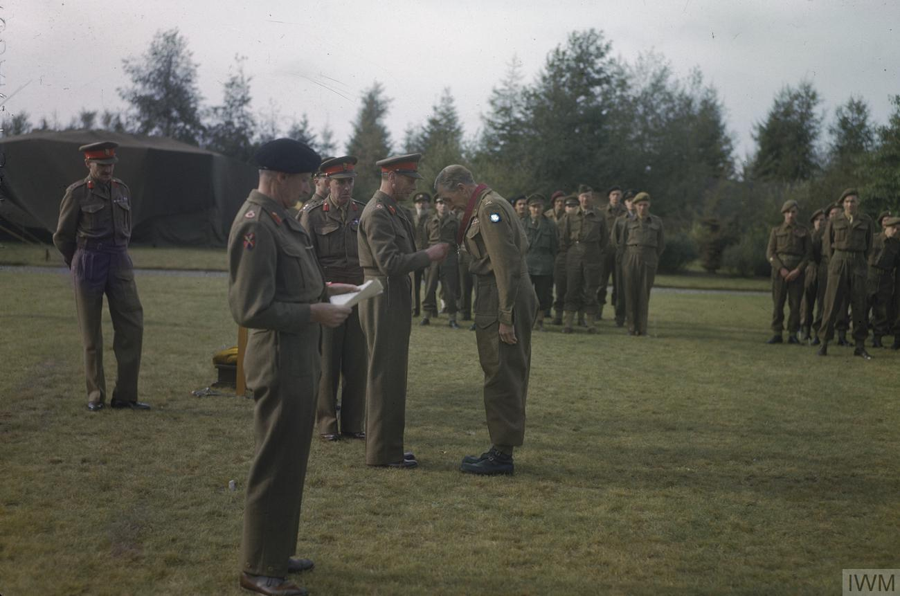 Hm King George Vi With the British Liberation Army in Holland, 15 October 1944 The Commander of 30 Corps, Lieutenant General B G Horrocks is made a Commander of the Bath and receives the Distinguished Service Order from HM King George VI during an investiture held at the headquarters of the Commander of the 21st Army Group, Field Marshal Sir Bernard Montgomery. Field Marshal Montgomery is seen in the foreground.